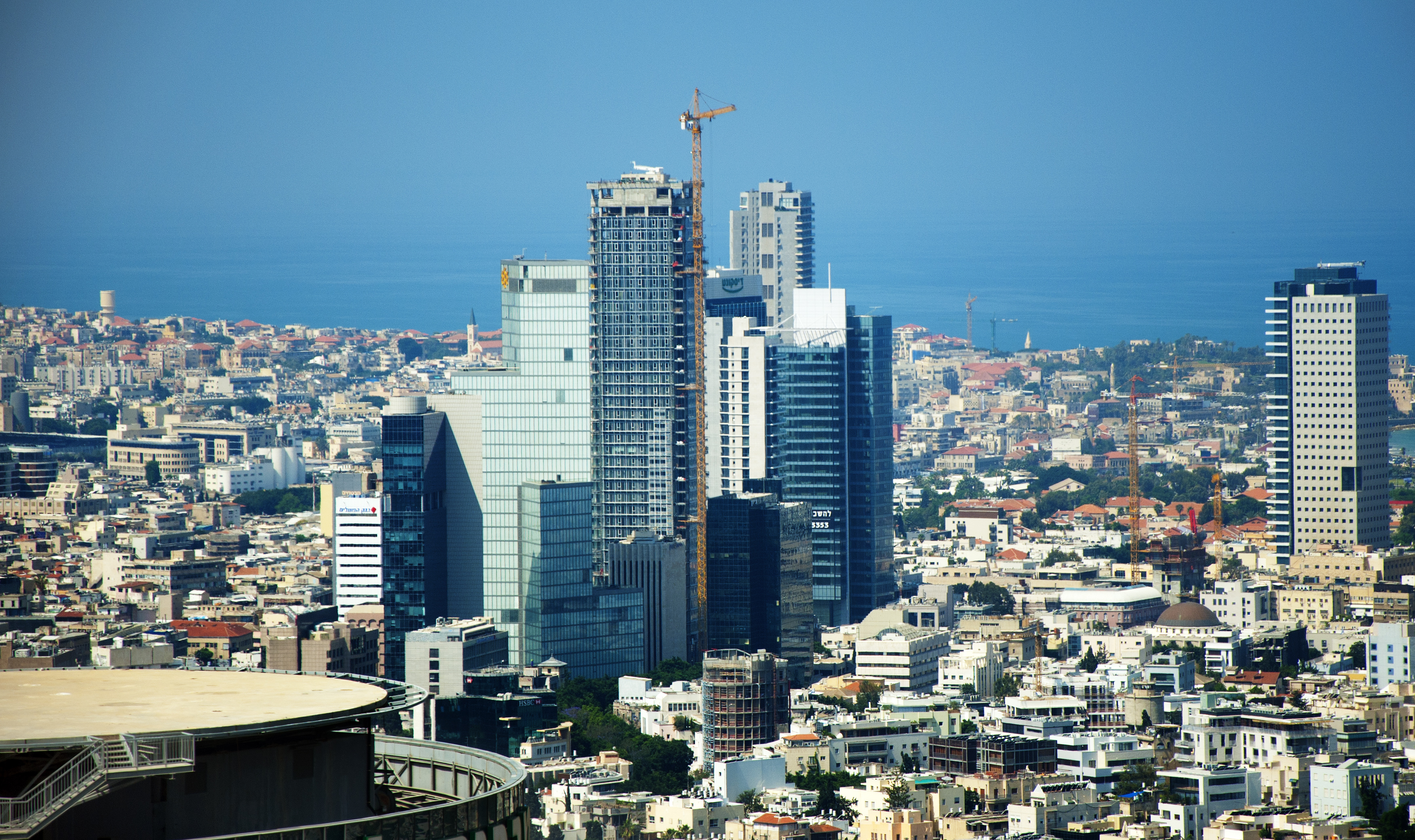 Agglomeration of towers on Rothschild Boulevard, Tel Aviv, Israel.